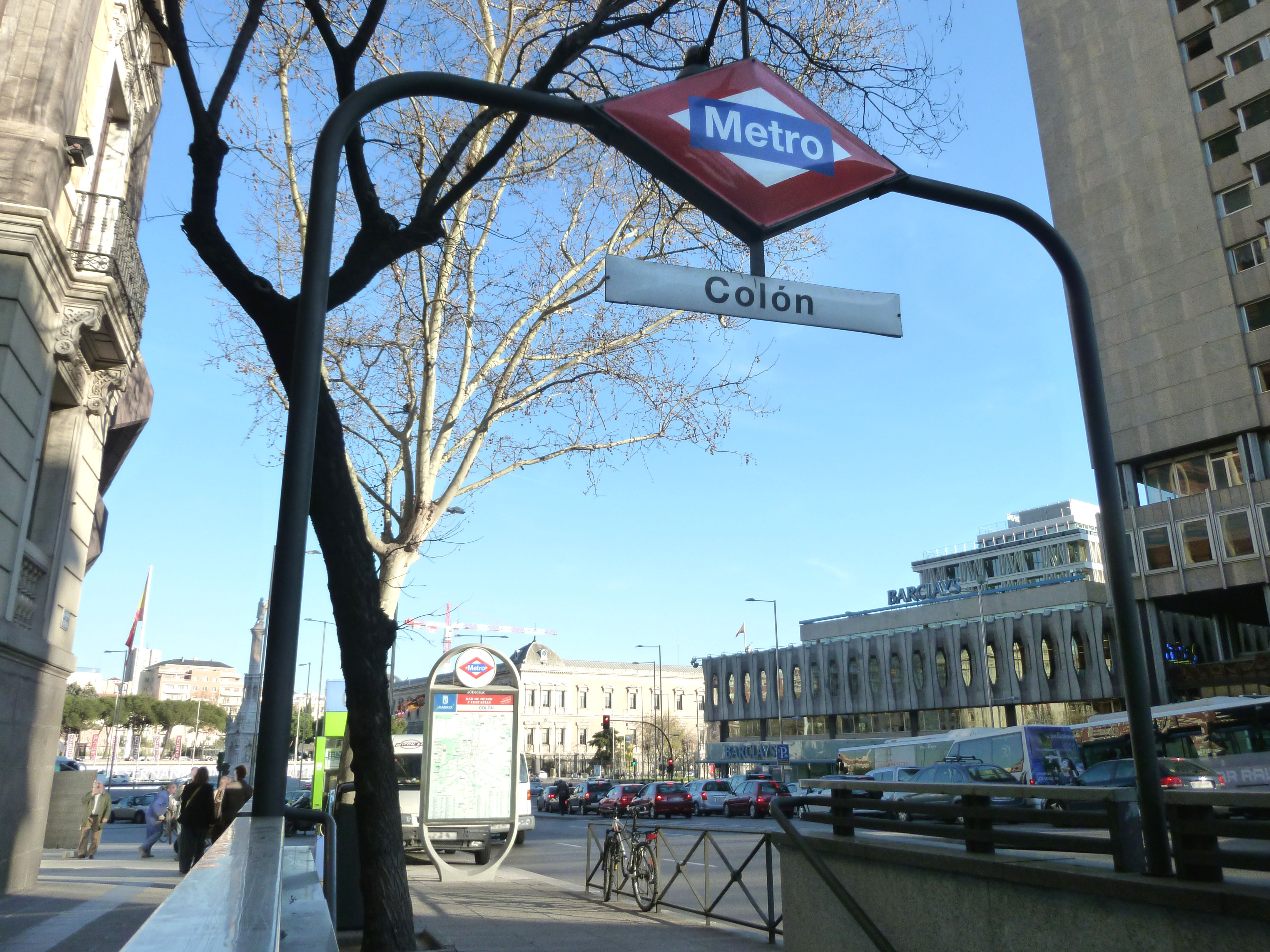 Entrance of Colón metro station in Madrid (Spain), at 29 Calle de Génova (street) in Centro district. In the background, Plaza de Colón ("Columbus Square").